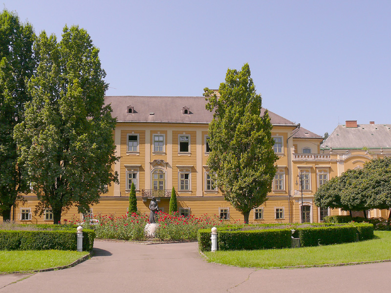 The Archiepiscopal Palace in Eger, Hungary